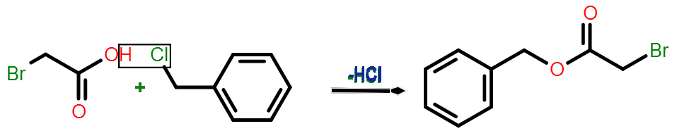 Benzyl bromoacetate synthesis from bromoacetic acid and benzyl chloride